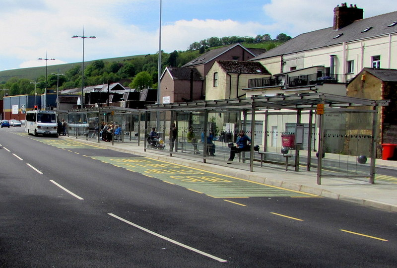 Bus station substitute in Ebbw Vale. There is no bus station building in Ebbw Vale. These centrally-located bus shelters are alongside the A4046 near Market Square and Queen Square.